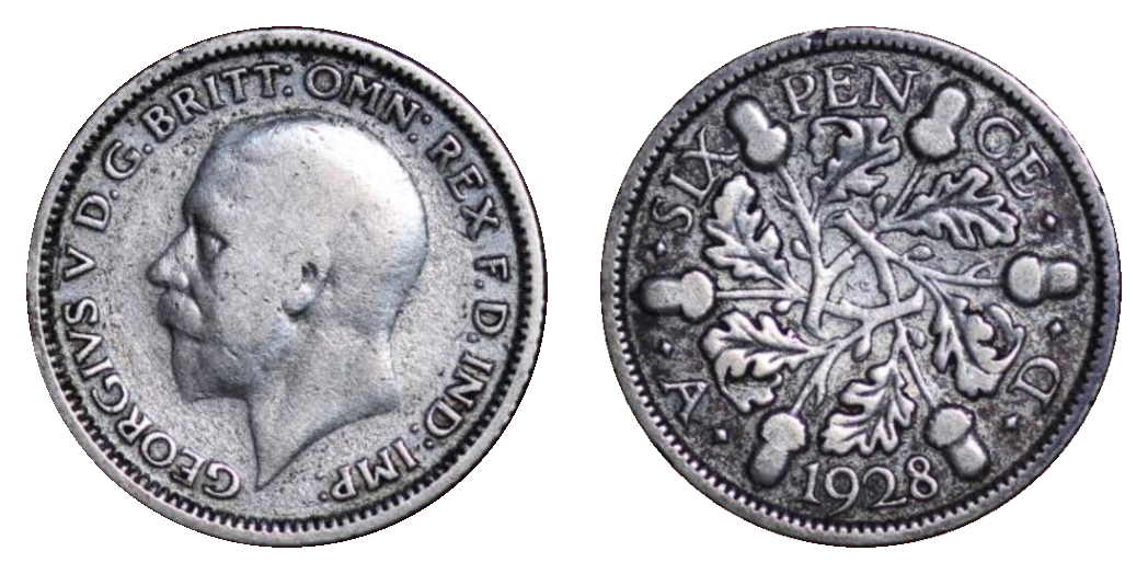 1928 British sixpence